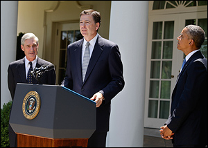 "James Comey speaks at the White House following his nomination by President Barack Obama to be the next director of the FBI when Director Robert S. Mueller’s term ends on September 4."